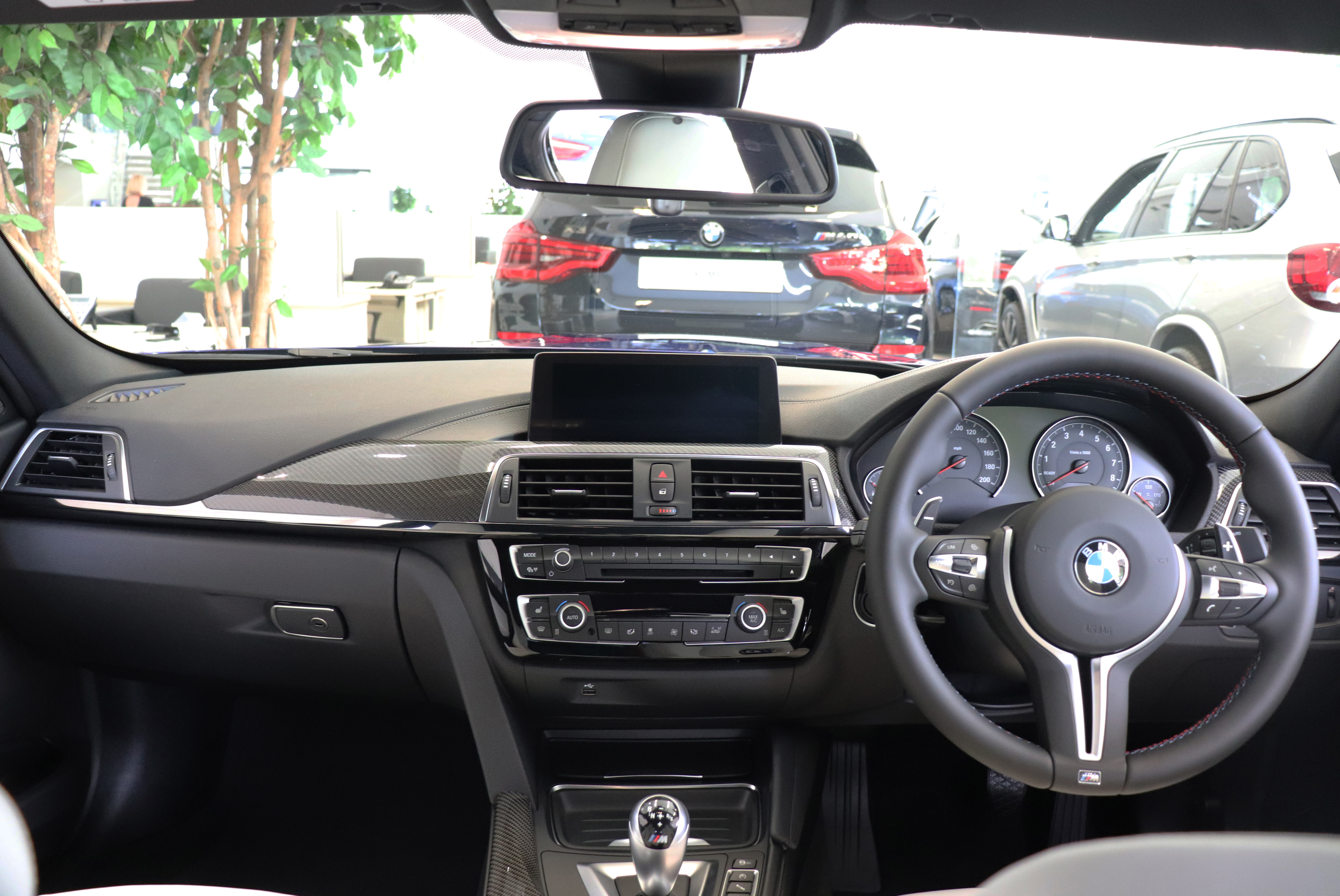 2018 BMW M3 Interior Taken in Solihull